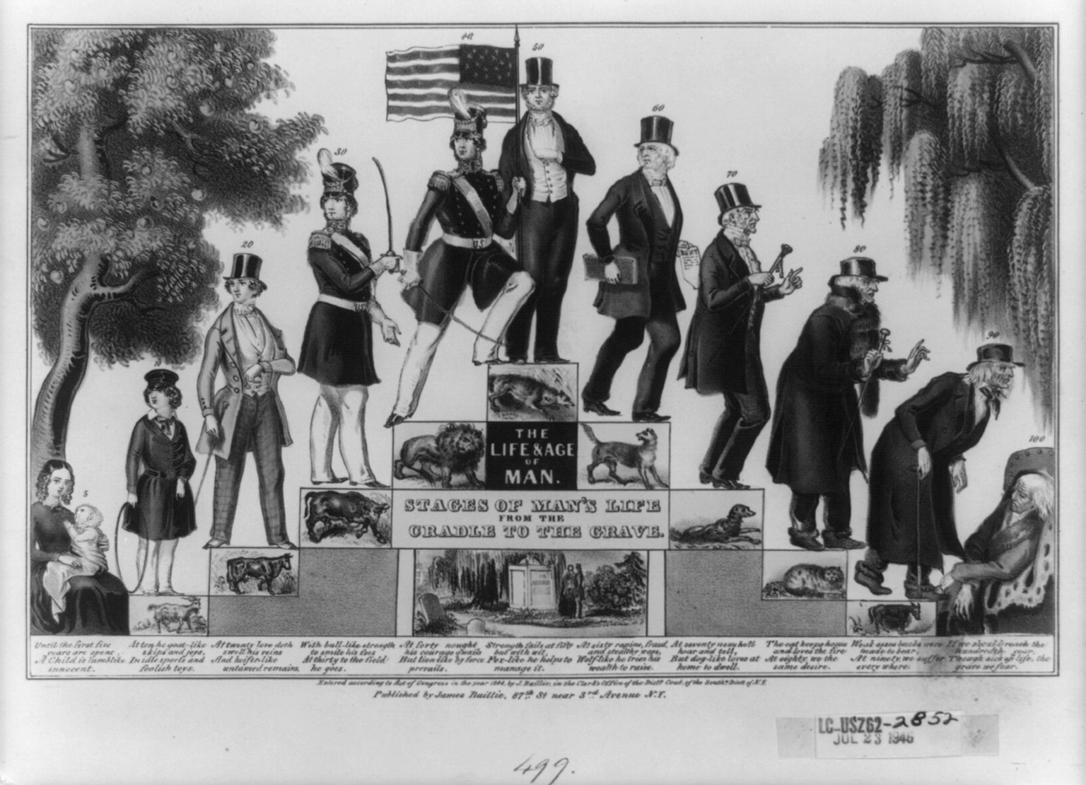 This monotone print shows a man aging every decade from infancy to 100 years-old. Verses at the bottom accompany the drawings at each stage of life.